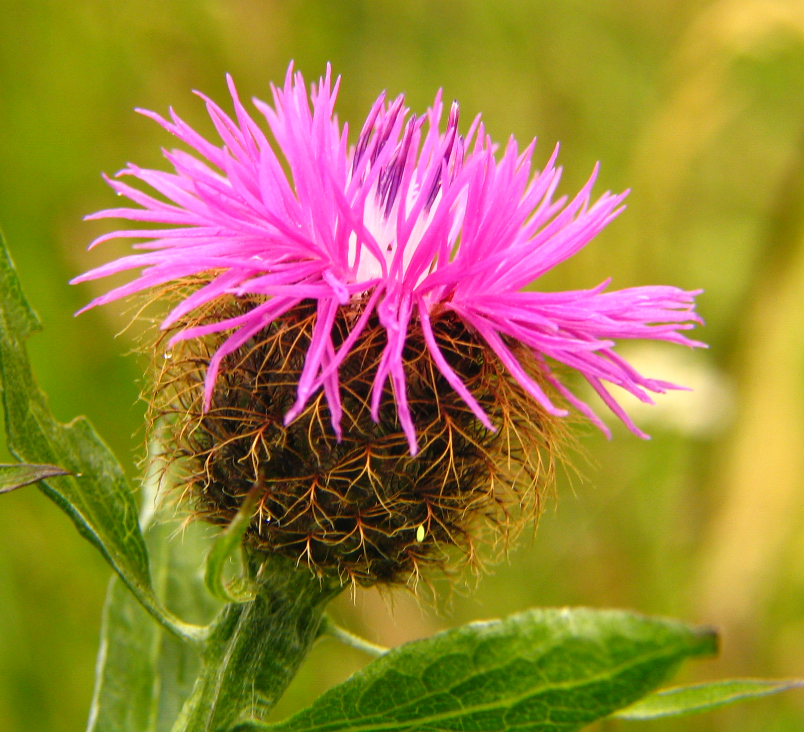 Centaurea phrygia; taken in Covasna County, Romania